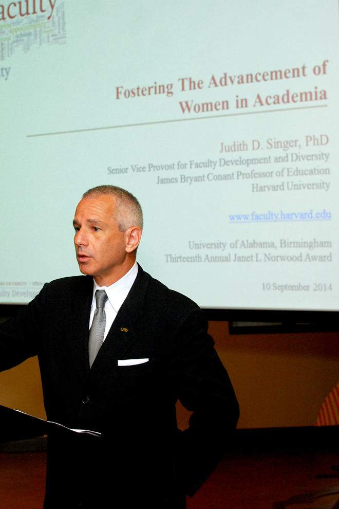 David B. Allison speaking at University of Alabama at Birmingham Other information Image taken with a Nikon D80